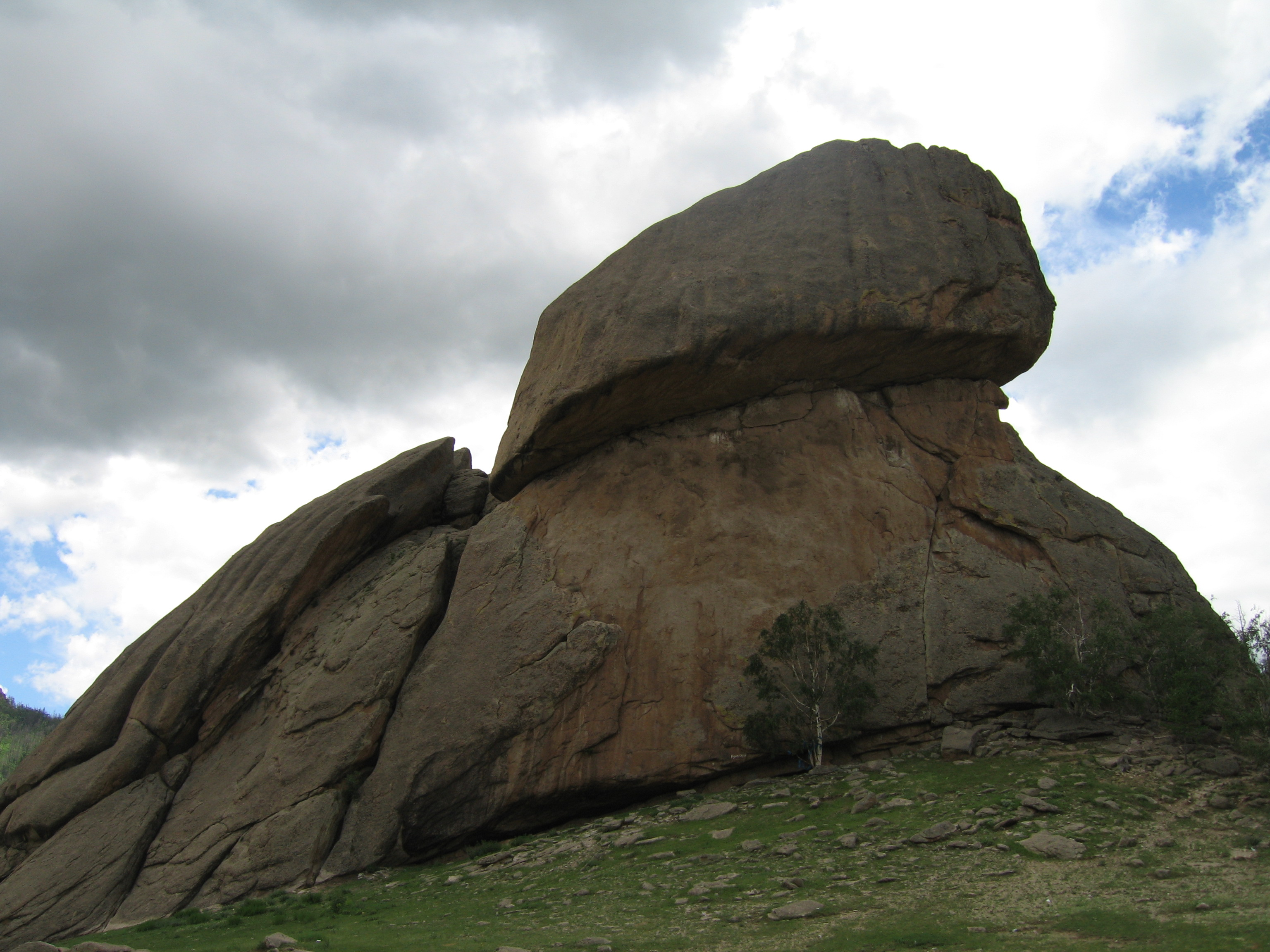 Turtle Rock, Gorkhi-Terelj National Park, Mongolia.